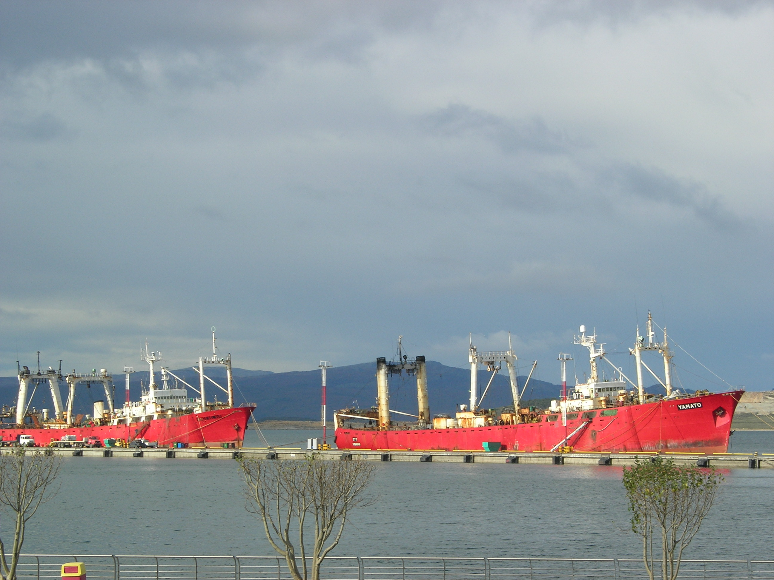 Description = Yamato dans le port de Ushuaia Name: Yamato Radio Callsign: LQCM Source =Photo taken by Remi Jouan Date =Avril 2006 Author =Remi Jouan